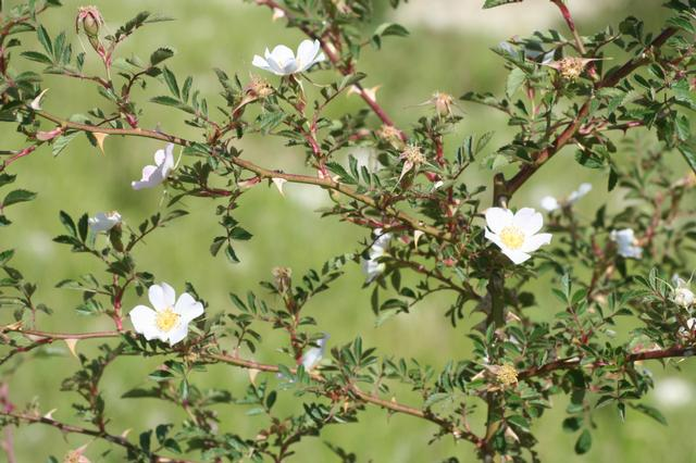 (en) Rosa agrestis, a photography originating of the internet site The accord of the autor, H. Brisse, is here. (fr) Rosa agrestis, une photographie issue du site internet L'accord de l'auteur, H. Brisse, se situe ici.